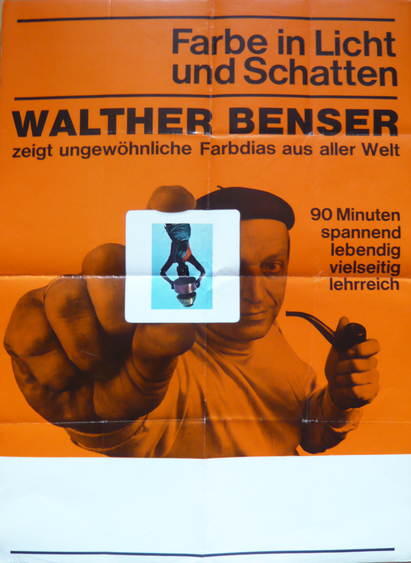 Poster, Walther Benser "Colors in Light and Shadow" 1965